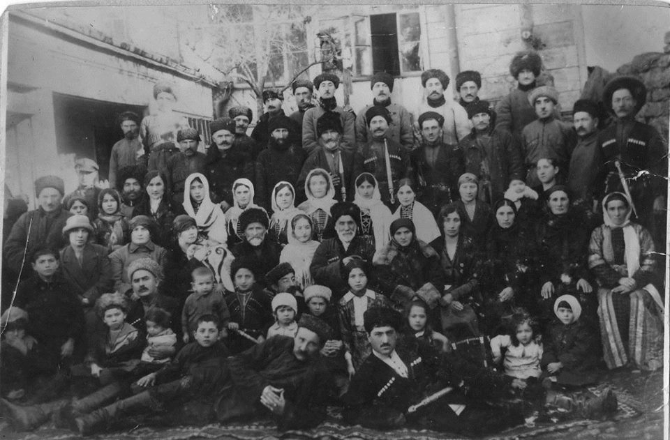 Карачаевцы на празднике в Кисловодске, 1926 г.